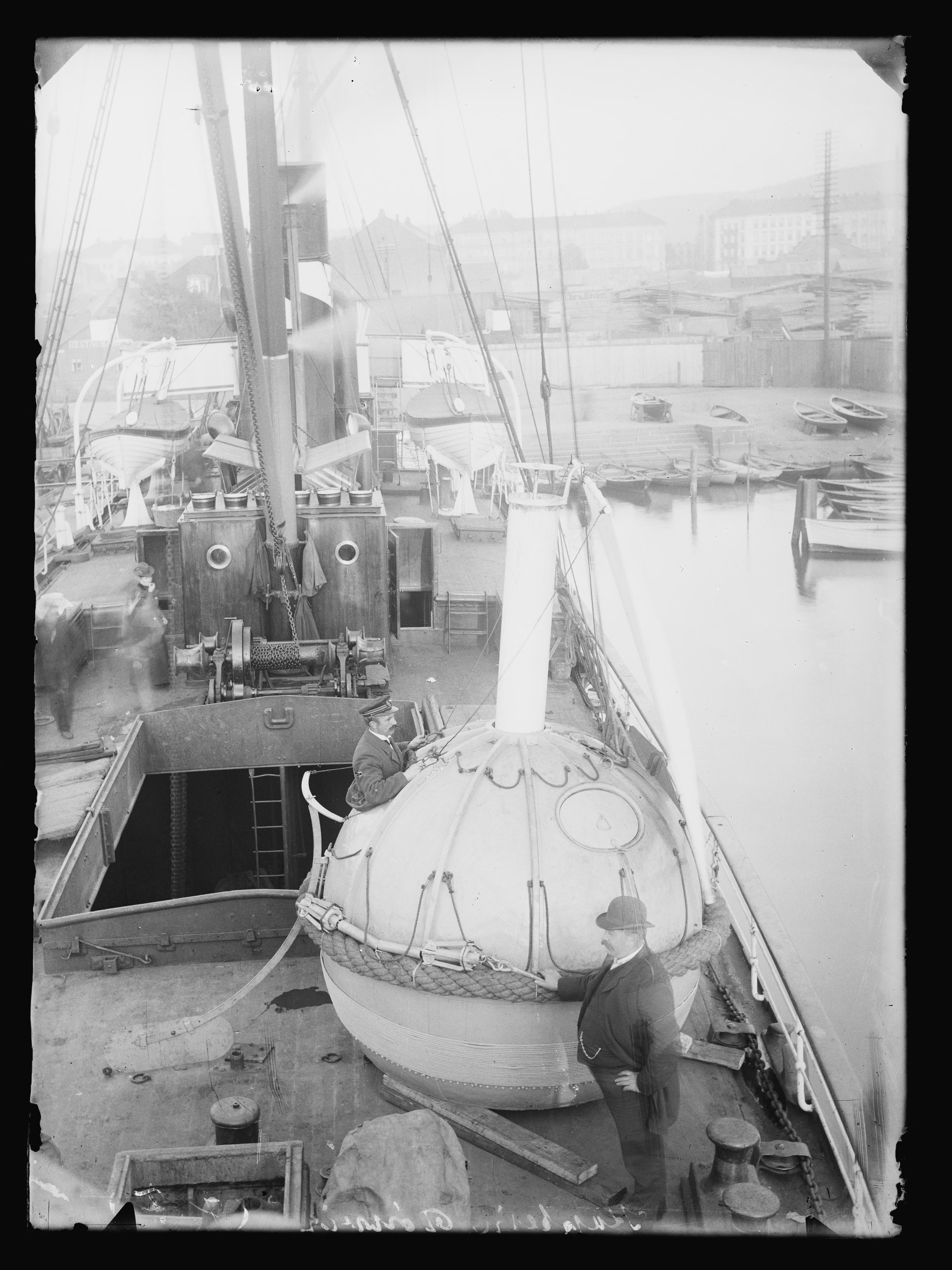 Captain Dønvig's Life-Saving GlobeNorsk bokmål: Jørgen M. Dønvigs livbåt.